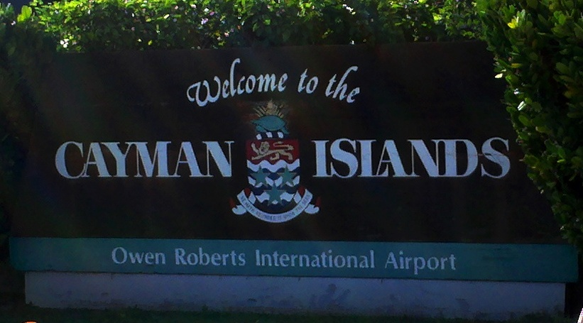 Welcome sign at Owen Roberts International Airport in George Town, Grand Cayman Island